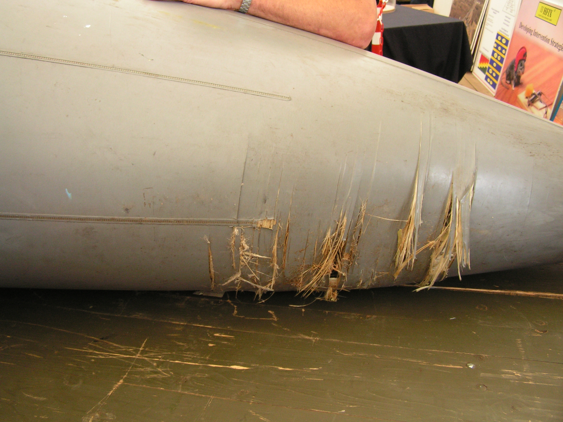 Nosecone of an F-16 after it hit a greylag goose in February 1994 above the Biesbosch. The collision occured at an altitude of 500 meters and rendered the radar unusable. The pilot made a safe visual landing. The damage on the left was caused by the goose, the two tears on the right were made by people who wanted to see what the nosecone was made of when it was on display, which turns out to be fiberglass and plastics. Photo was made at the KLu Open Dagen 2007.